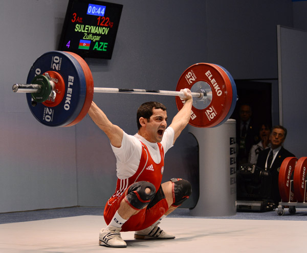 Zulfugar Suleymanov competing at the 2012 Iwf Grand Prix - Baku International Cup